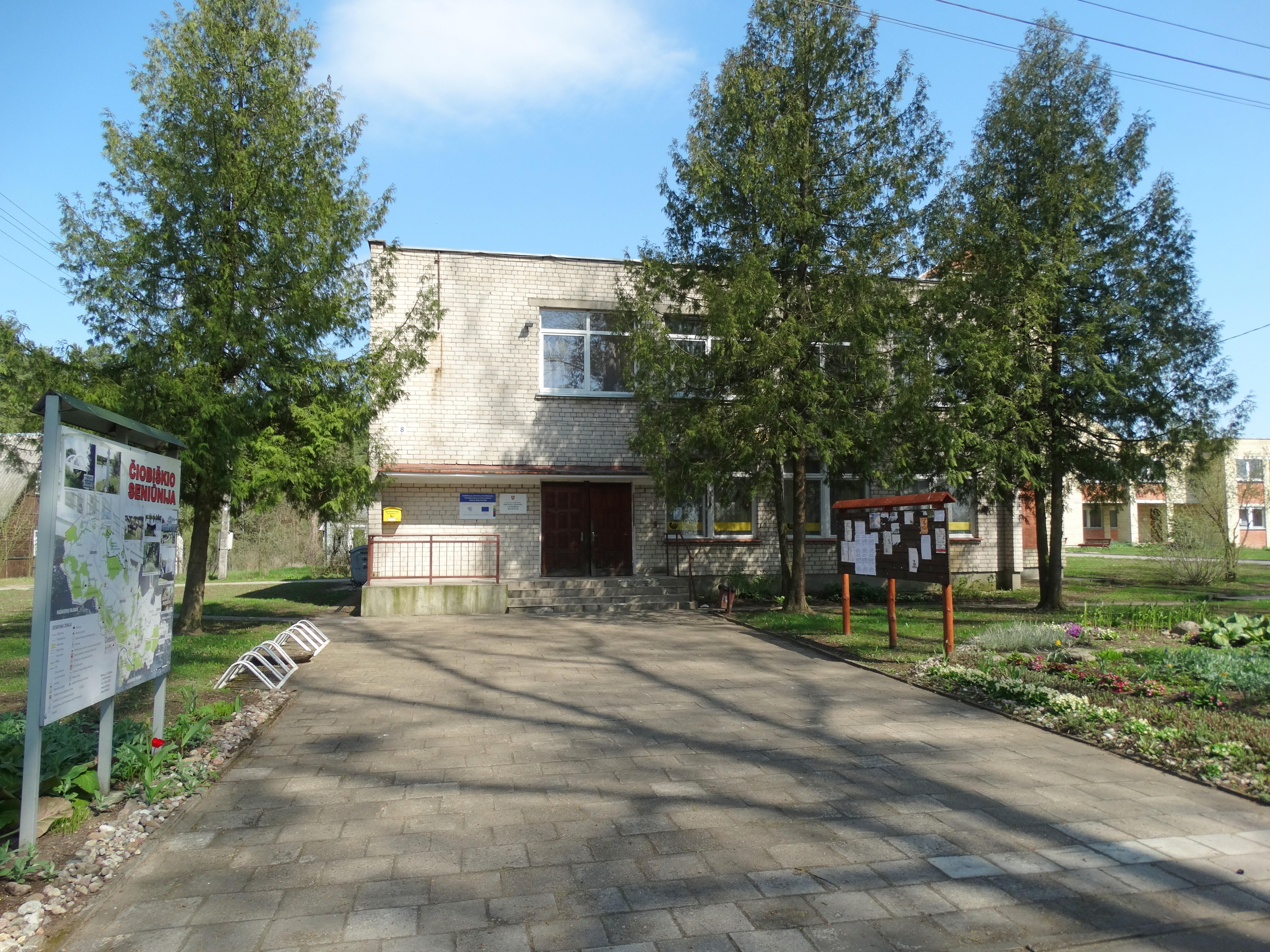 Eldership in Čiobiškis, Širvintos District, Lithuania